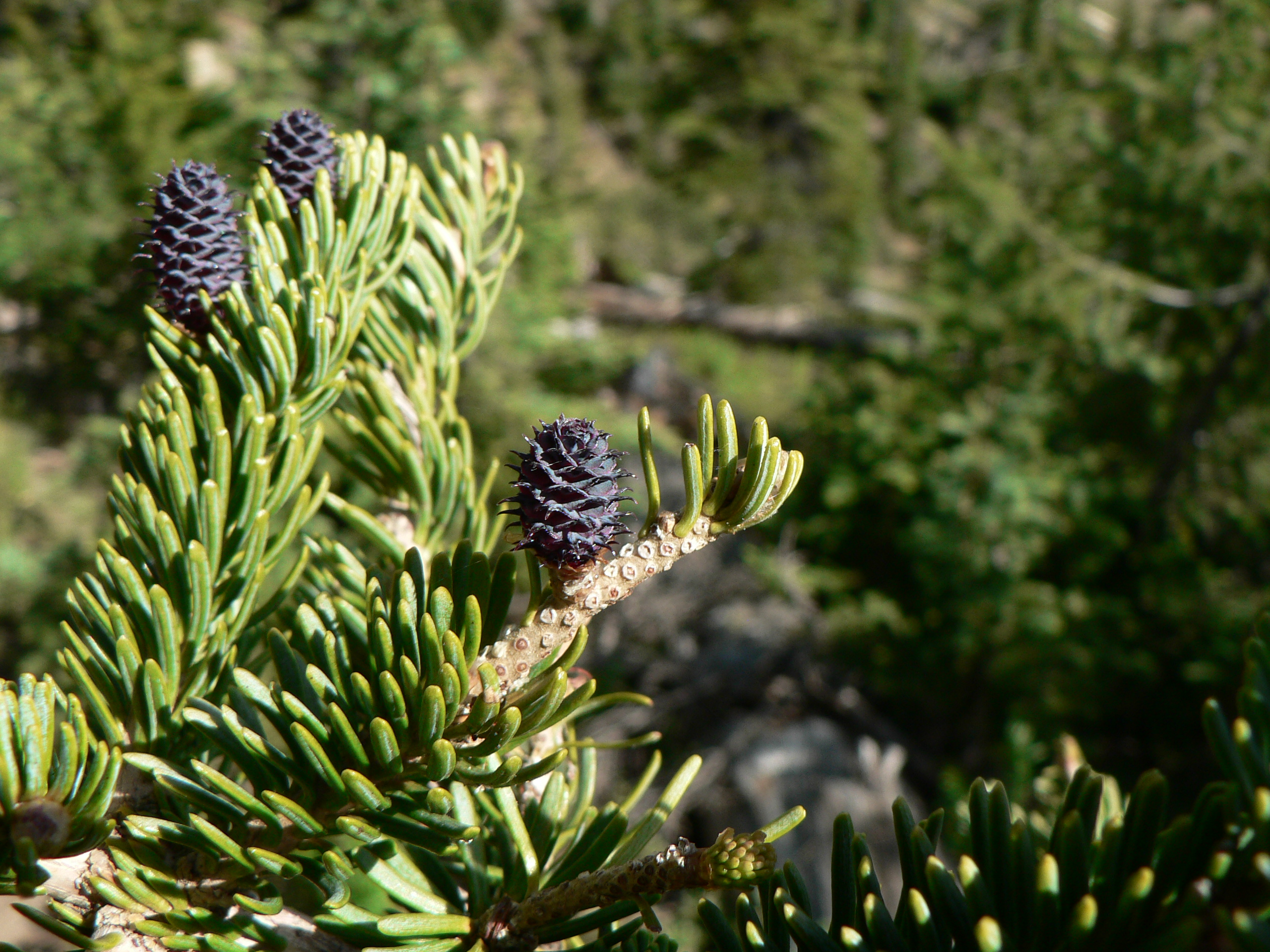 Subalpine Fir